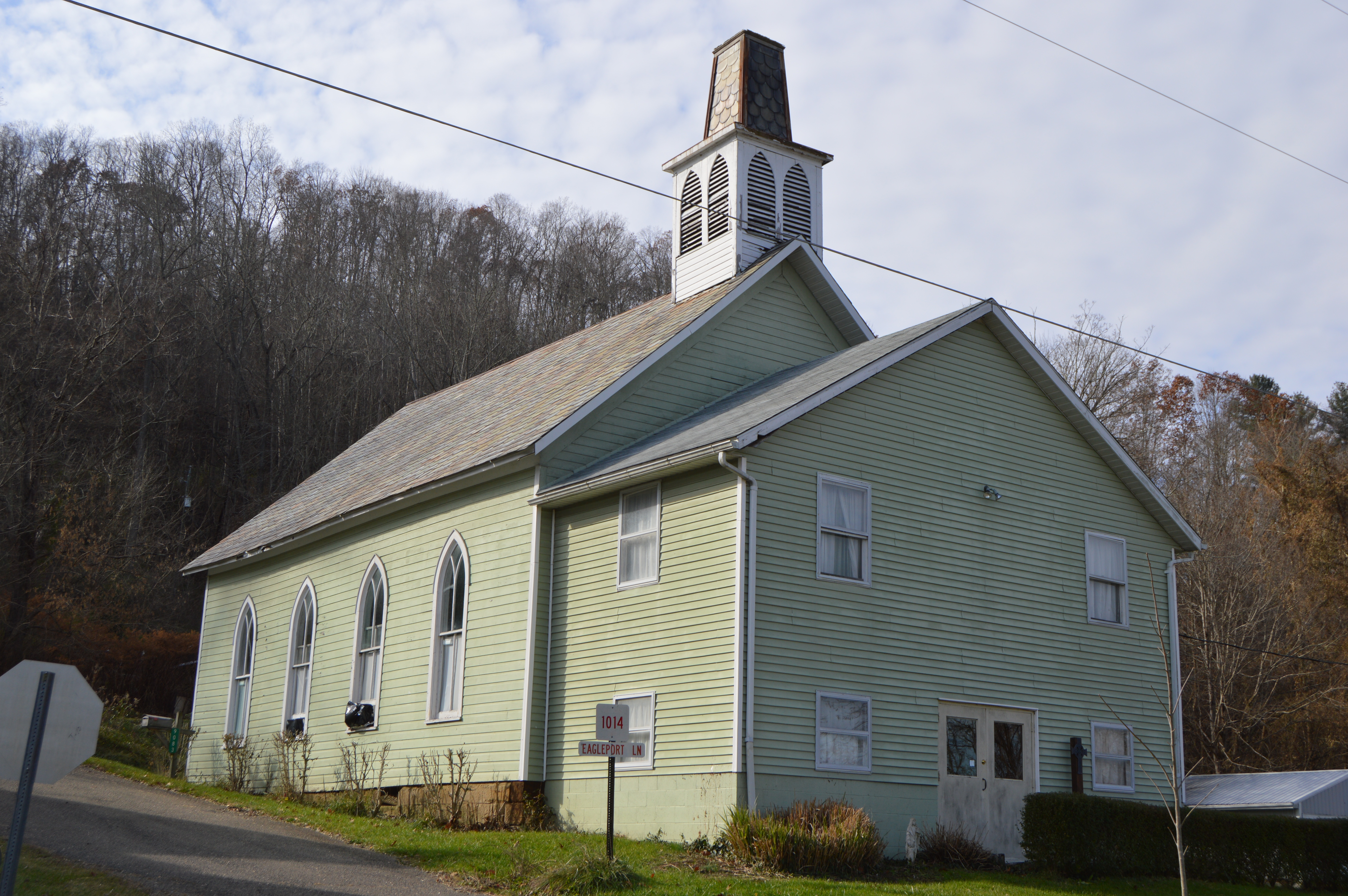 Front and southeastern side of St. Saviour Episcopal Church, located on State Route 669 at Eagleport in Bloom Township, Morgan County, Ohio, United States.